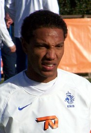 Jonathan de Guzman during a training of the Netherlands national under-21 football team in 2008